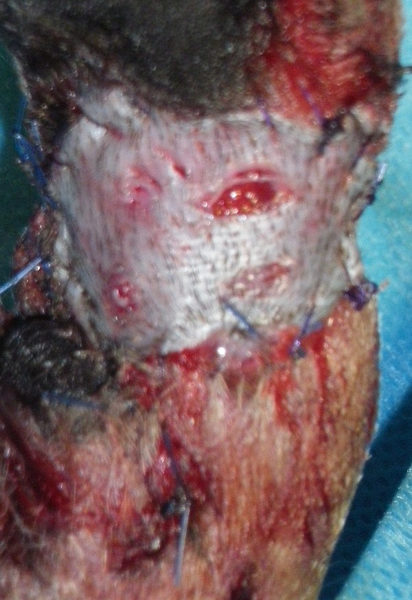 skin graft on palmar surface of metacarpus in a dog immediately after transplantation